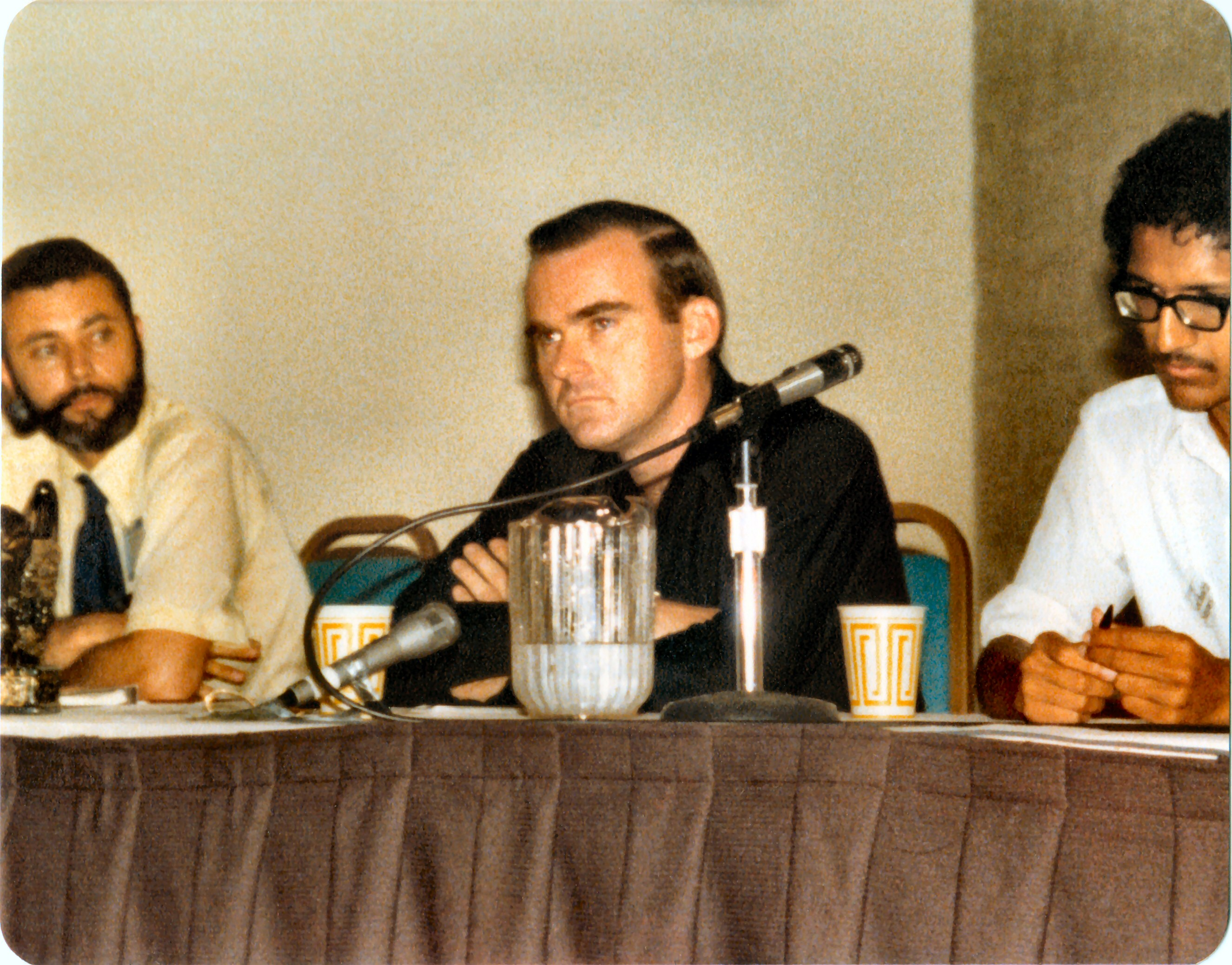 HPL Panel IB01 - Dr. Donald R. Burleson, Dr. Dirk W. Mosig, and S.T. Joshi - Sunday, 3-Sep-1978